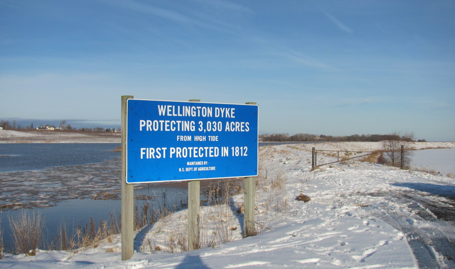 The Wellington Dyke and Wellington Dyke Road, Nova Scotia, Canada looking south from Canard to Starr's Point, December 27, 2007.